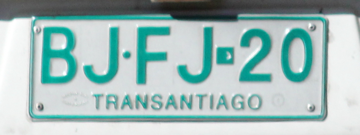 Chilean registration plate in format 3: Transantiago